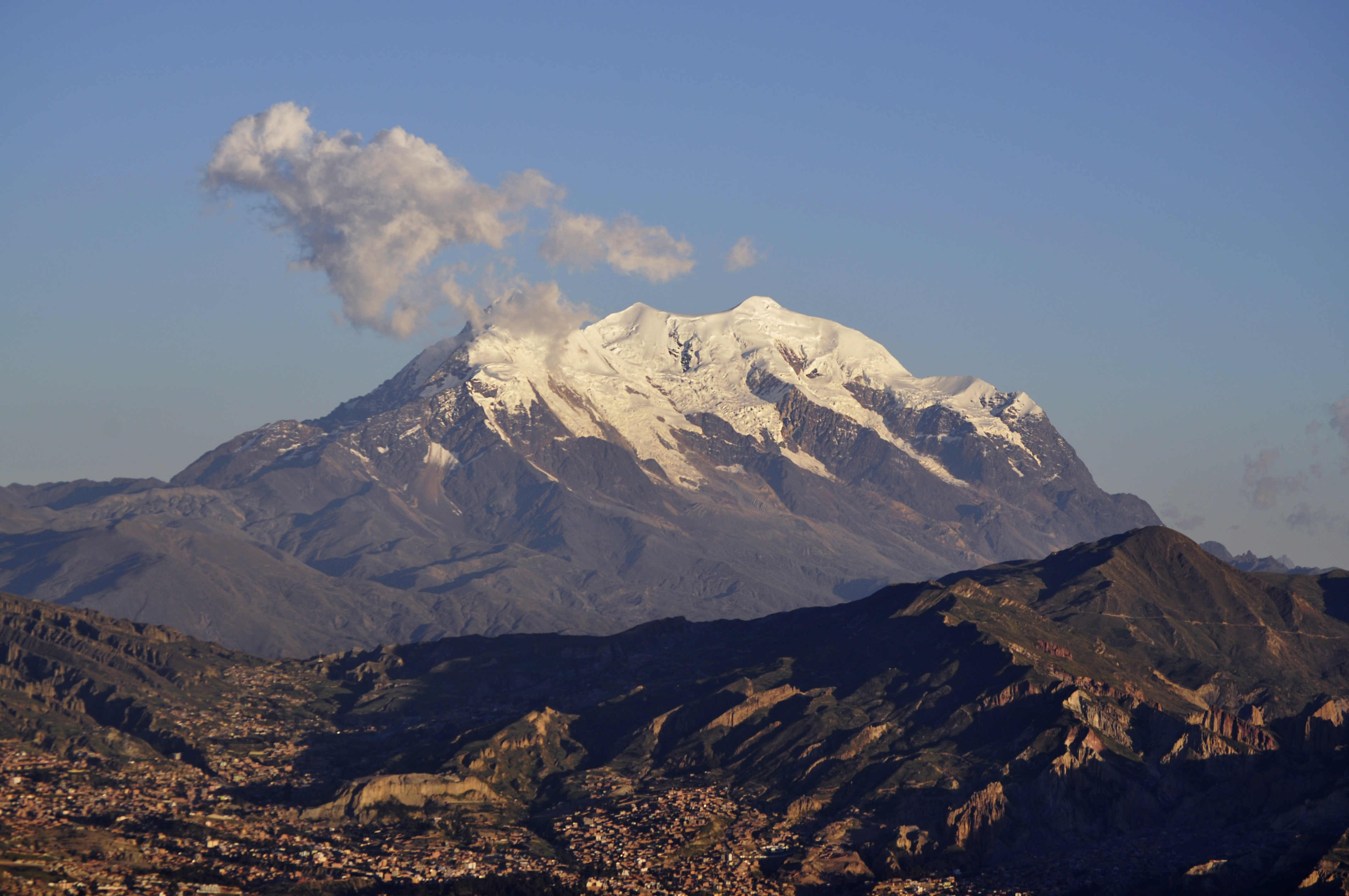 Illimani mountain seen from La Paz, Bolivia